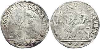 Italy, Venice. Giovanni II Cornaro. 1709-1722. AR Ducato (22.49 gm). Magistrate AM (Alvise Minotto). Doge kneeling before St. Mark Lion of St. Mark with model of city. CNI VIII pg. 391, 61; Papadopoli 40; Scarfea 1268; Davenport 1533. VF.